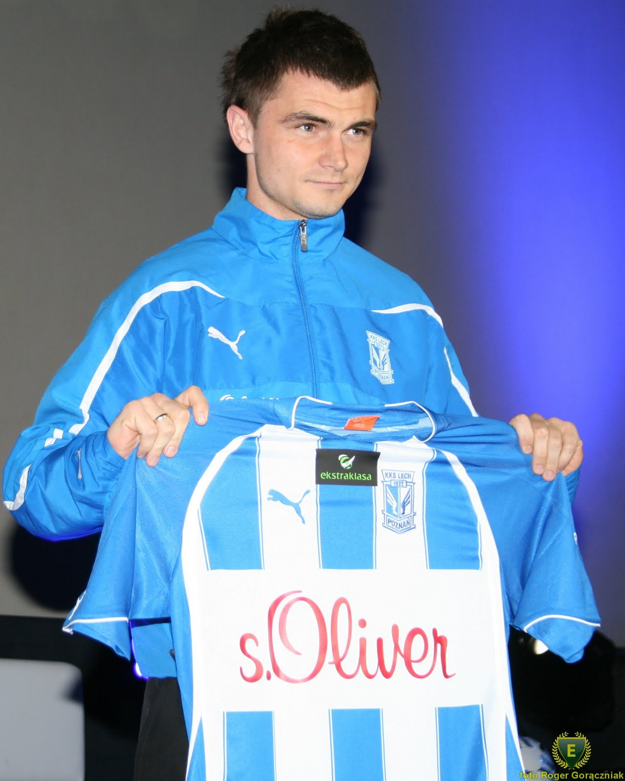 Polish football player Huber Wołąkiewicz